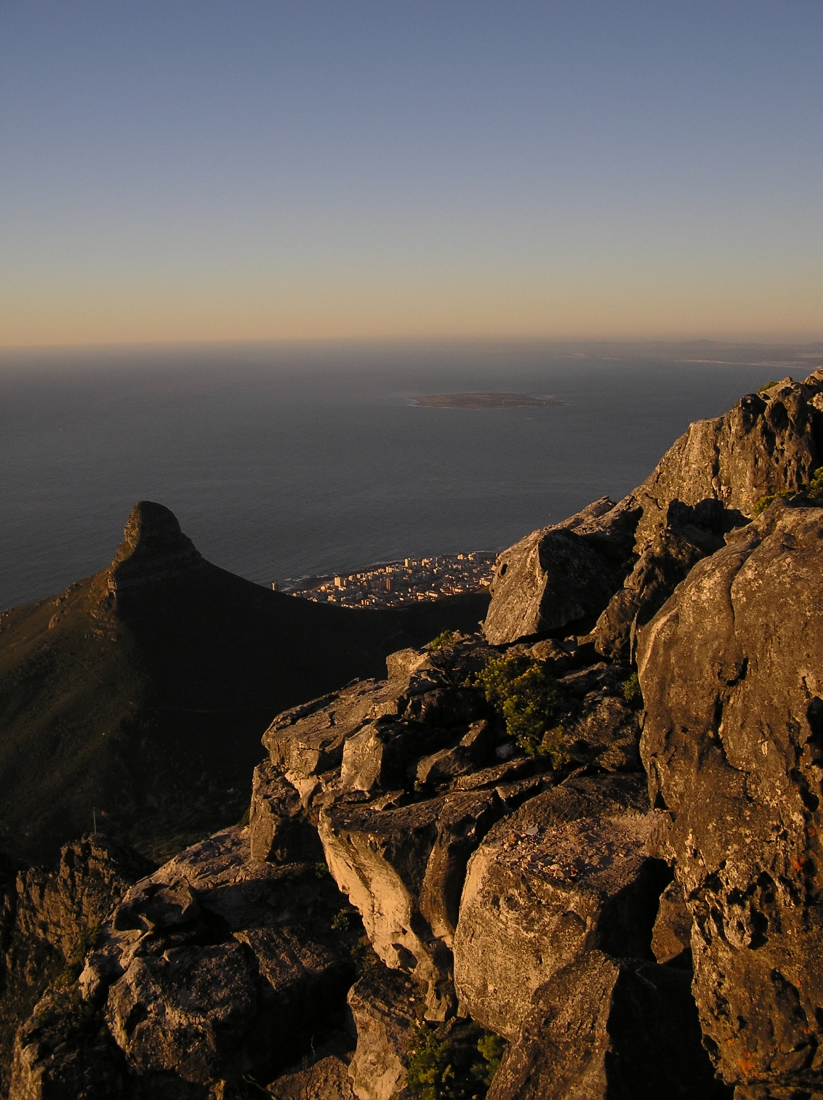 South Africa, Cape Town, view from Table Mountain with Robben Island in the background.